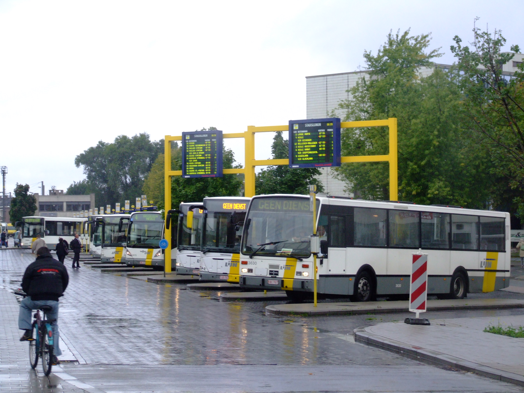 Kortrijk train station Belgium and the former bus station in front.